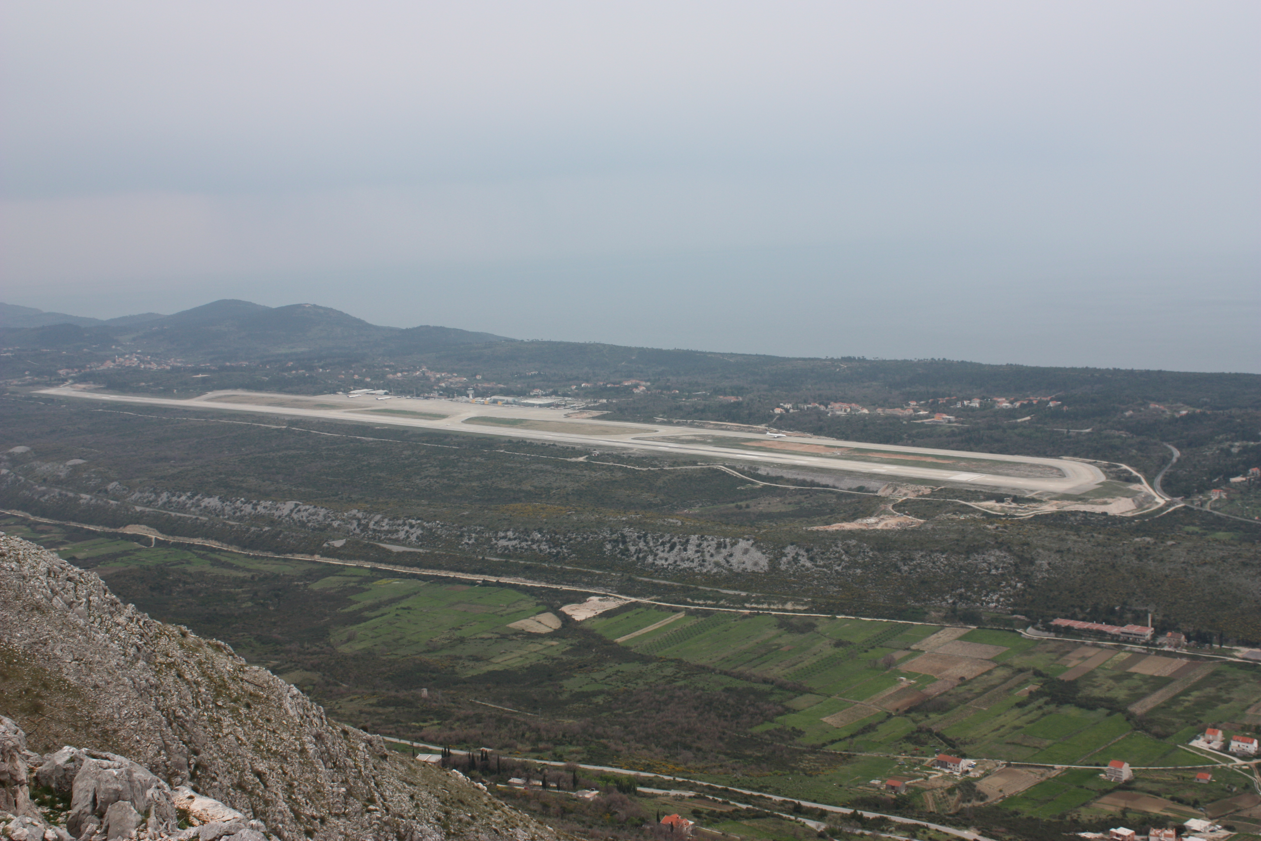 Dubrovnik Airport runways